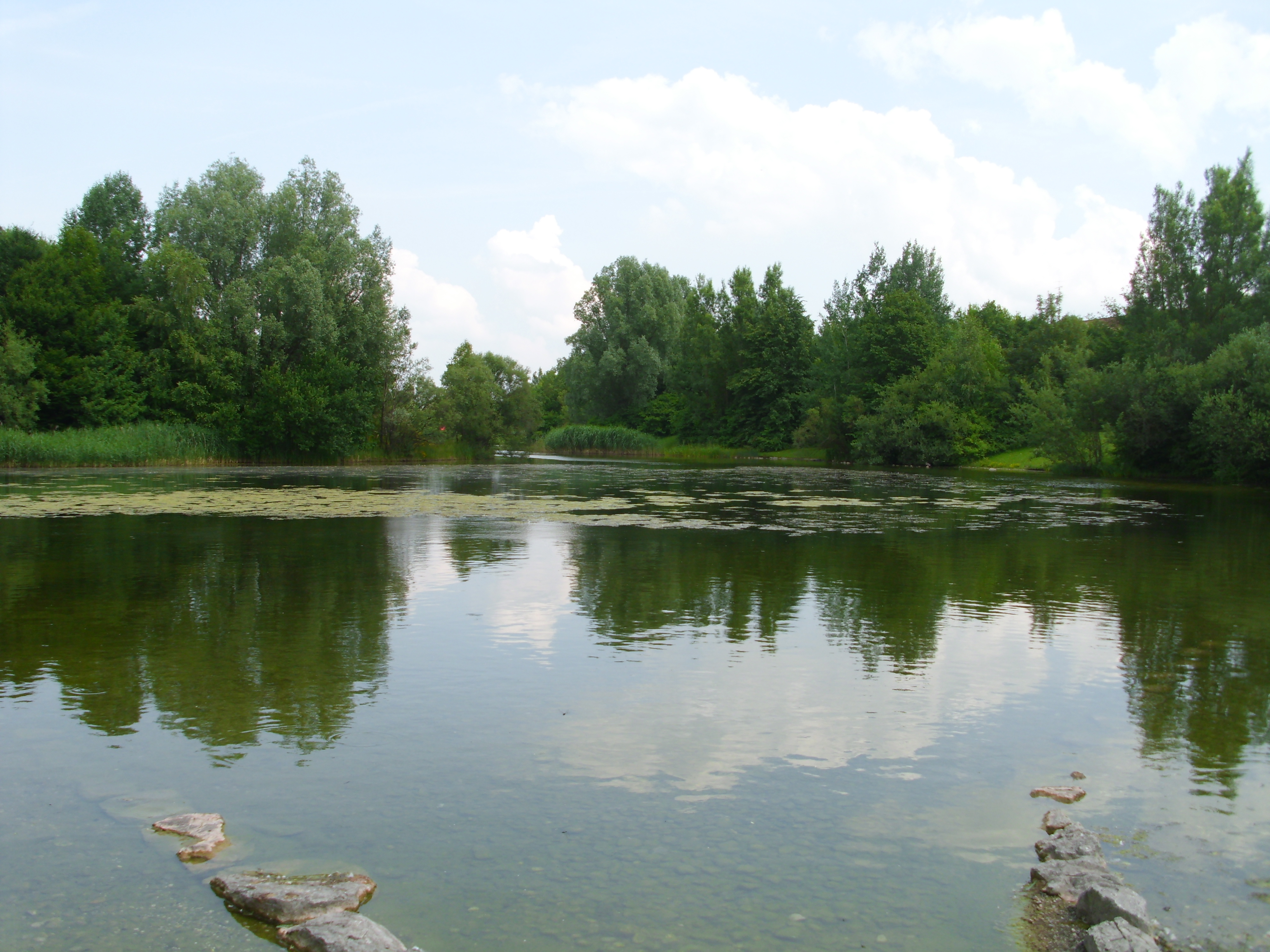 see headline (German)